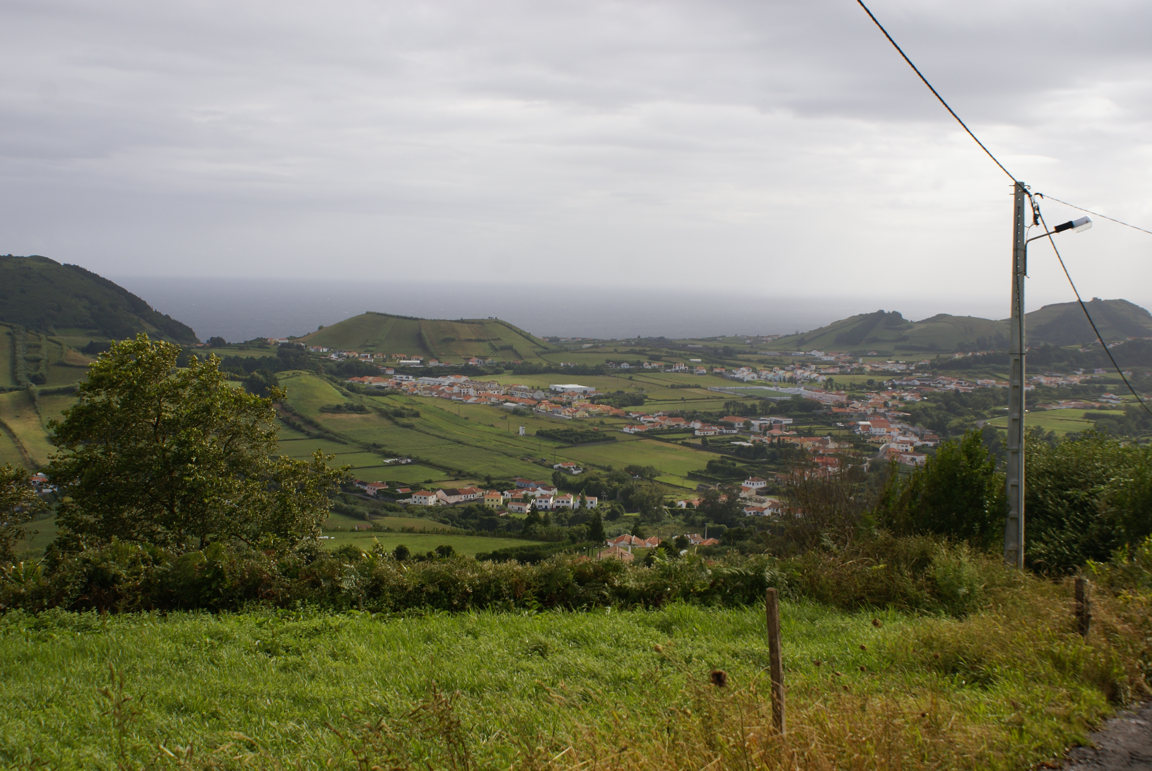 Paisagem da ilha do Faial, interior, Açores, Portugal